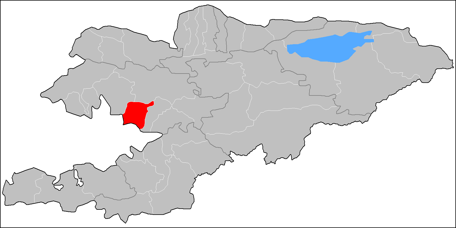 The location of the raion (district) of Nooken in Kyrgyzstan. Based on Image:Kyrgyzstan raions.png